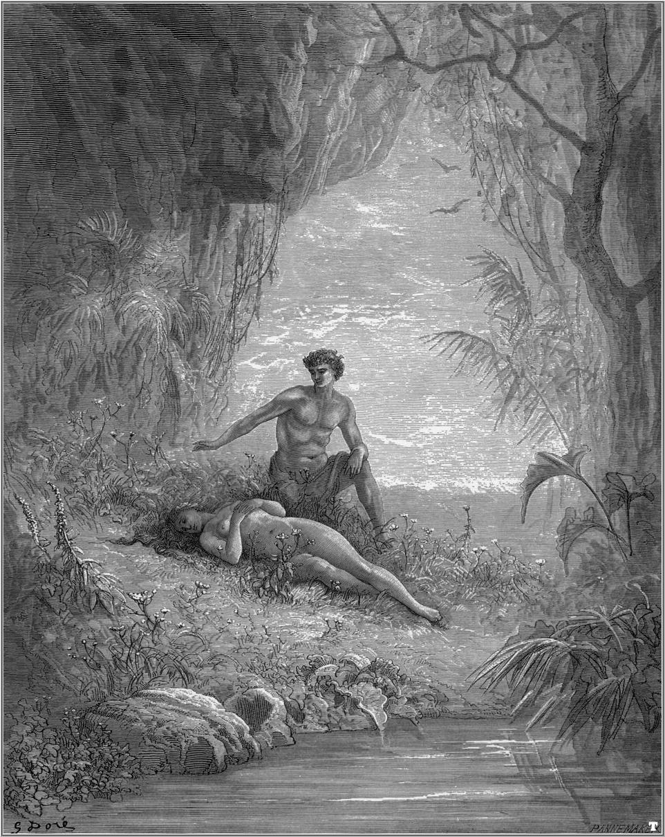 Illustration for John Milton’s “Paradise Lost“